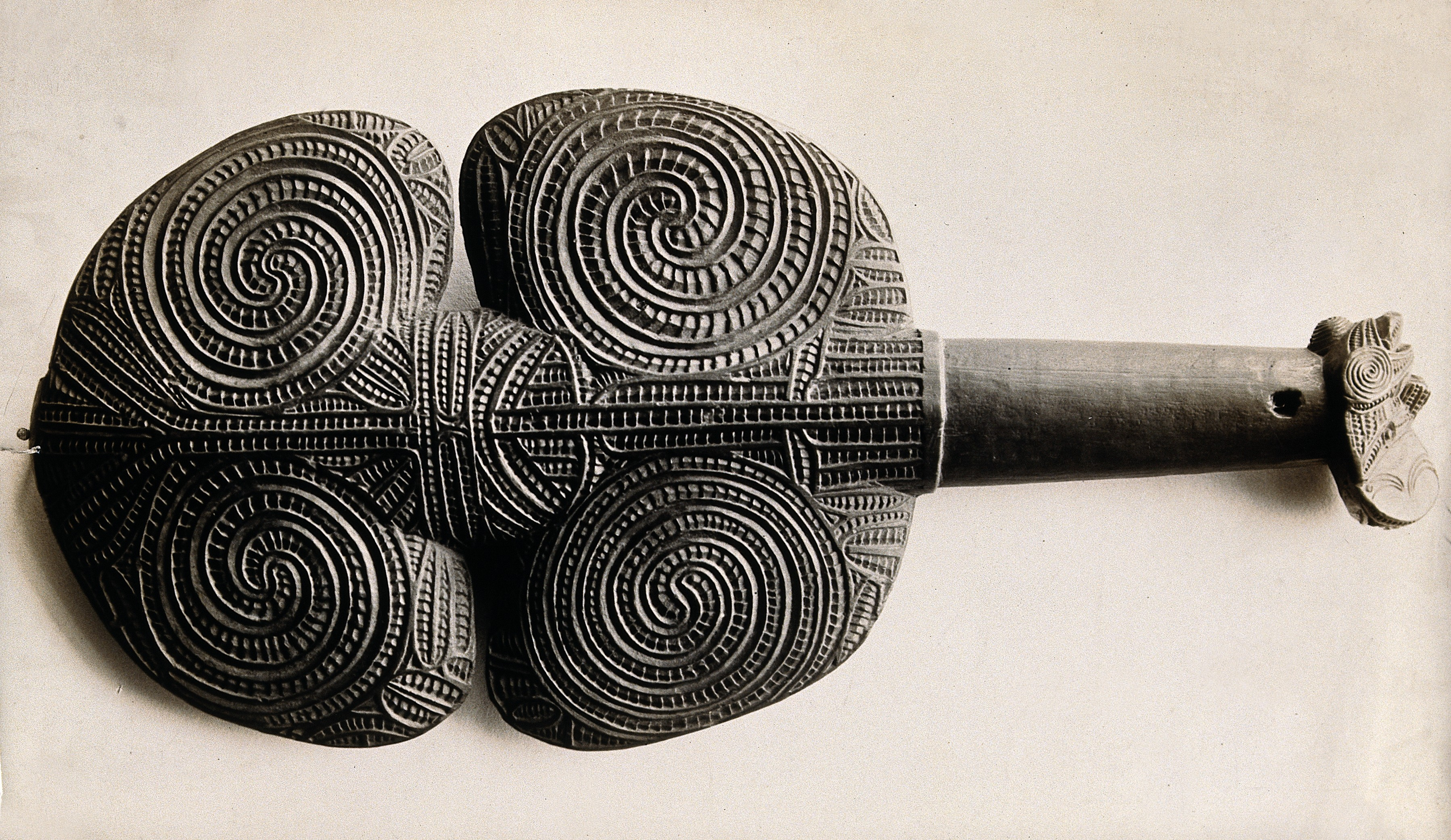 New Zealand: Maori wooden club (mere). Albumen print. Iconographic Collections